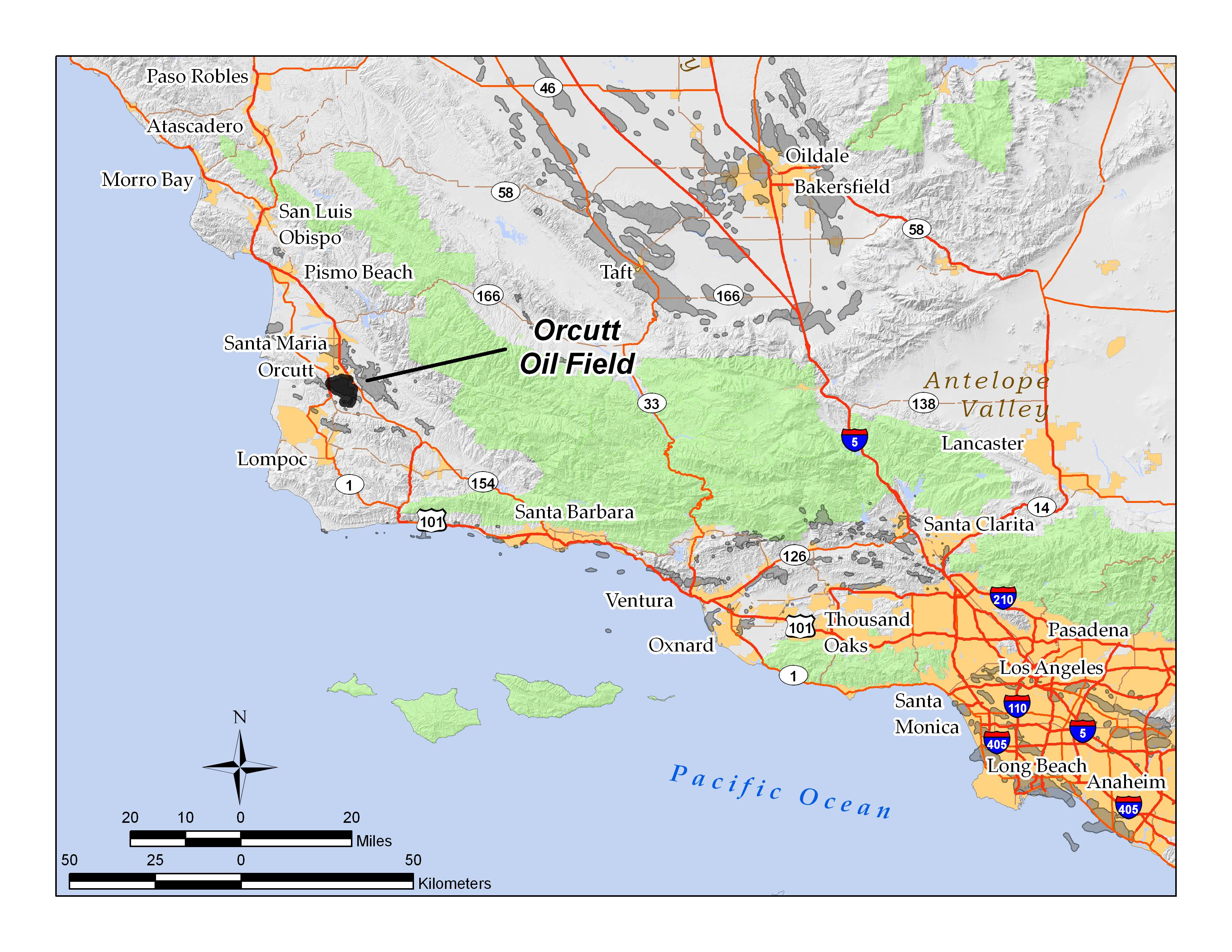 Location of Orcutt field; by self in ArcGIS 9.3; GFDL/equiv